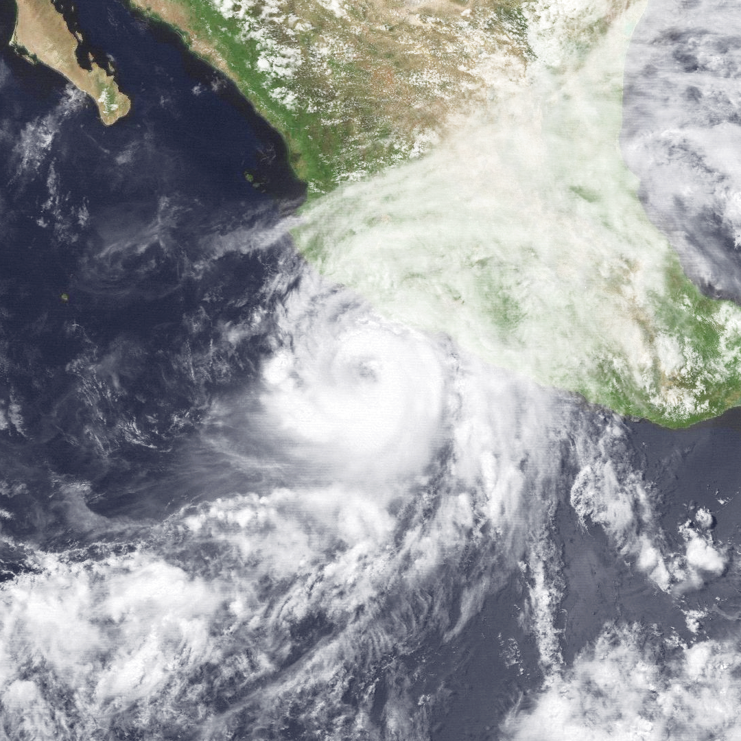 Hurricane Eugene near peak intensity approaching the west coast of Mexico on July 24, 1987